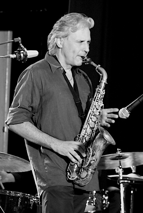 Photography of a performance by Perico Sambeat's Elastic Quintet at Classijazz Jazz Club, Almería (Spain), on November 11, 2012 (B-W)